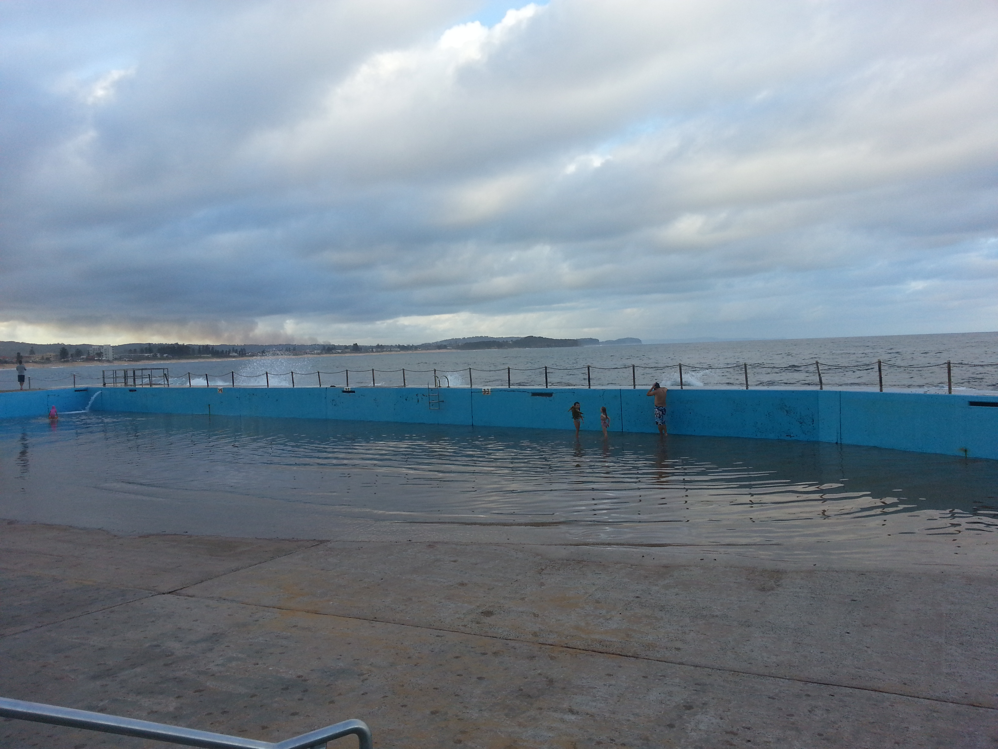 Collaroy Rockpool while cleaning